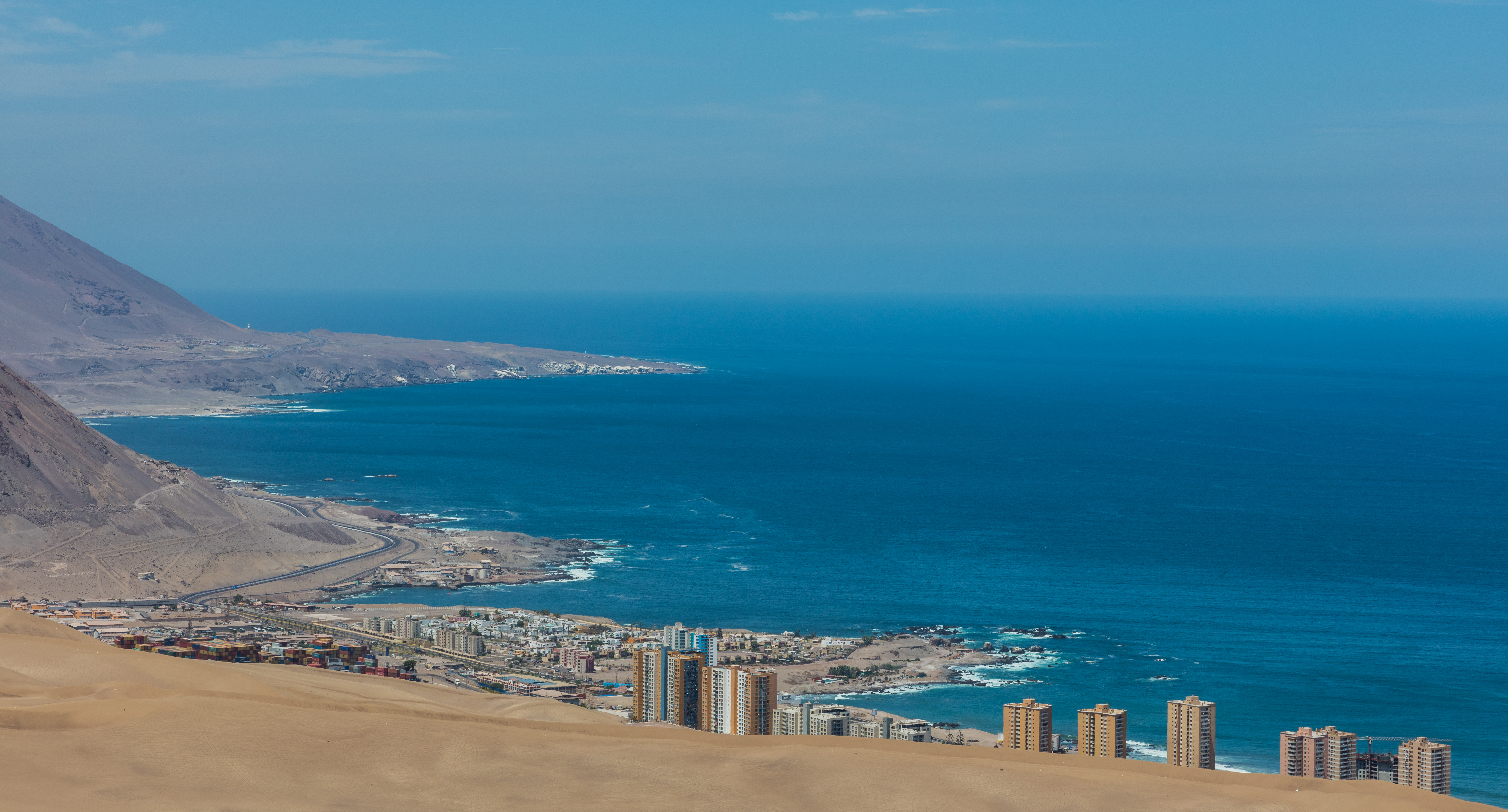 View of Iquique, Chile